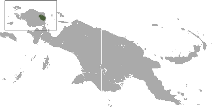 Round-eared Tube-nosed Fruit Bat (Nyctimene cyclotis) range